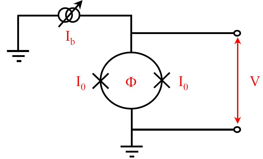 SQUID